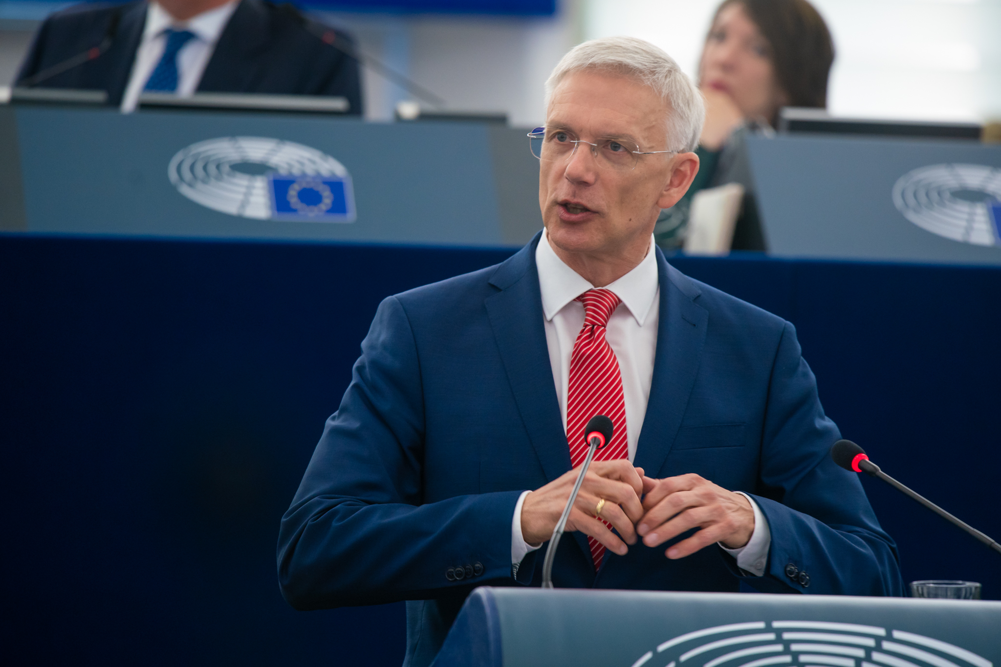 The EU needs to strengthen the basics, Latvian Prime Ministers Krišjānis Kariņš said in the debate on the Future of Europe, on Wednesday. Read our press release here: This photo is free to use under Creative Commons license CC-BY-4.0 and must be credited: "CC-BY-4.0: © European Union 2019 – Source: EP". No model release form if applicable. For bigger HR files please contact: webcom-flickr(AT)